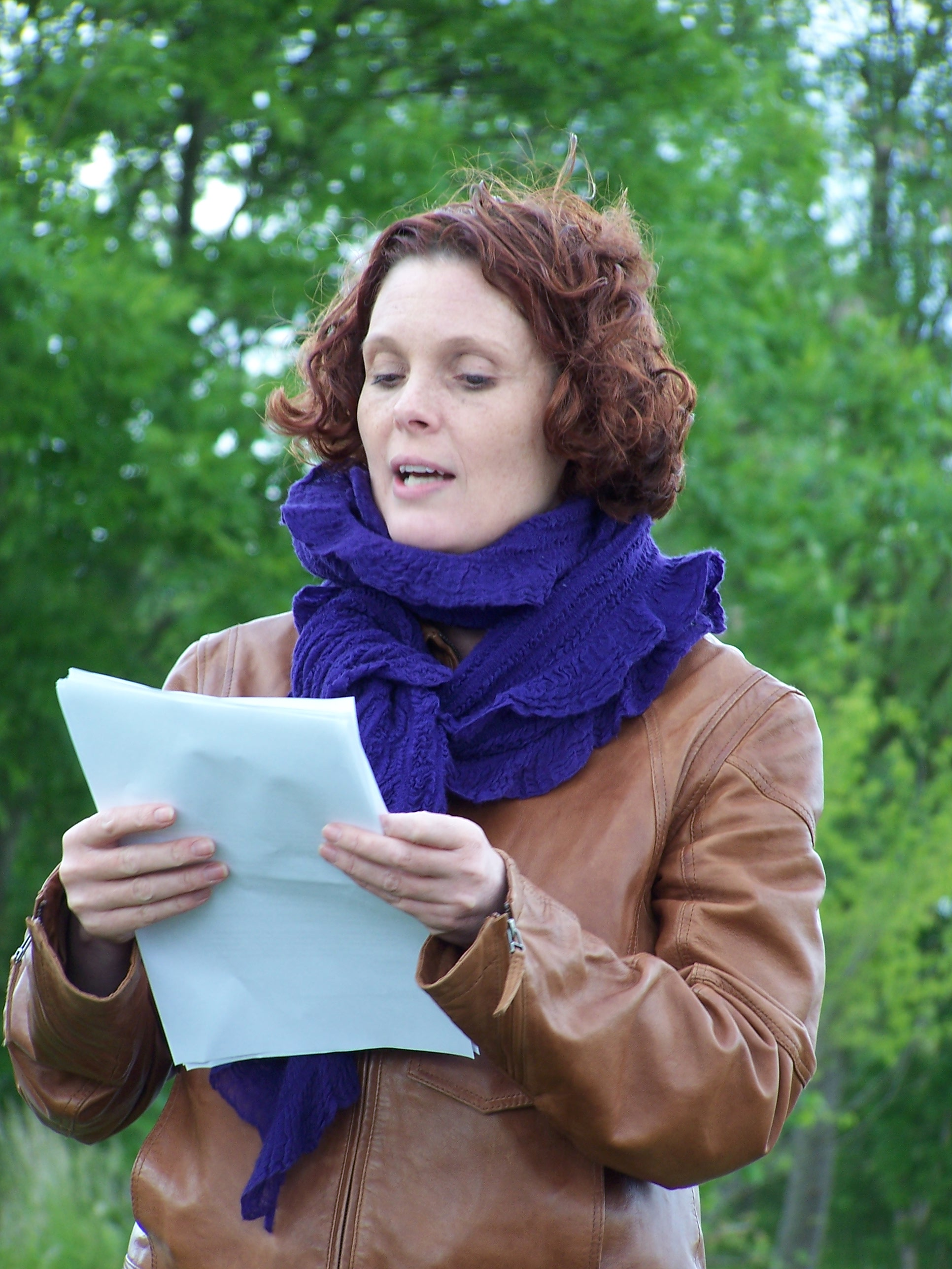 Hanne Dahl at IT-Politisk Forenings grundlovsmøde 2009